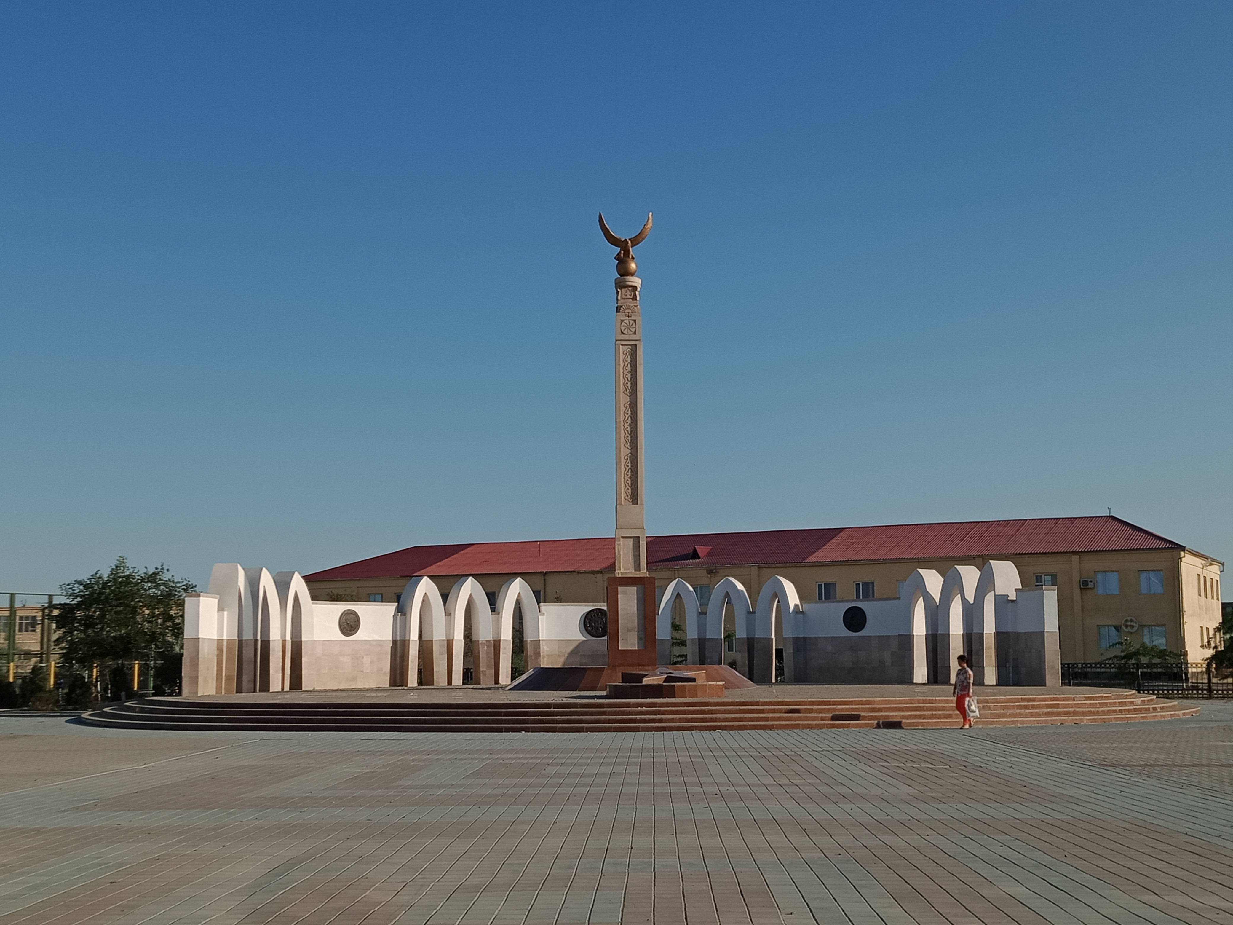 Park for WWII in Zhanaozen